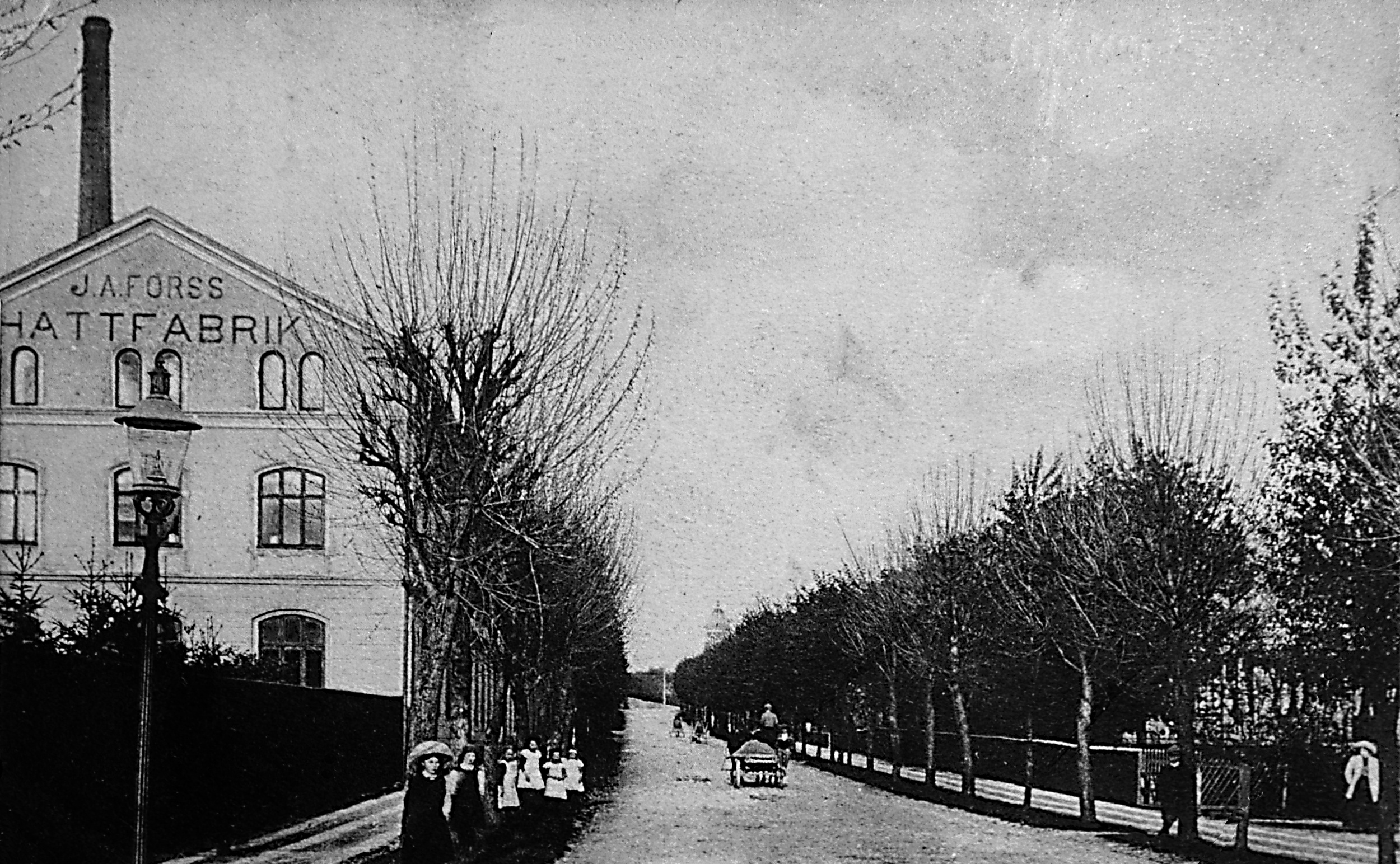 J.A. Forss hattfabrik (swedish: J.A. Forss hat factory). Built around 1880. The factory is now used as a dwelling. The photo was shot around the year 1900.